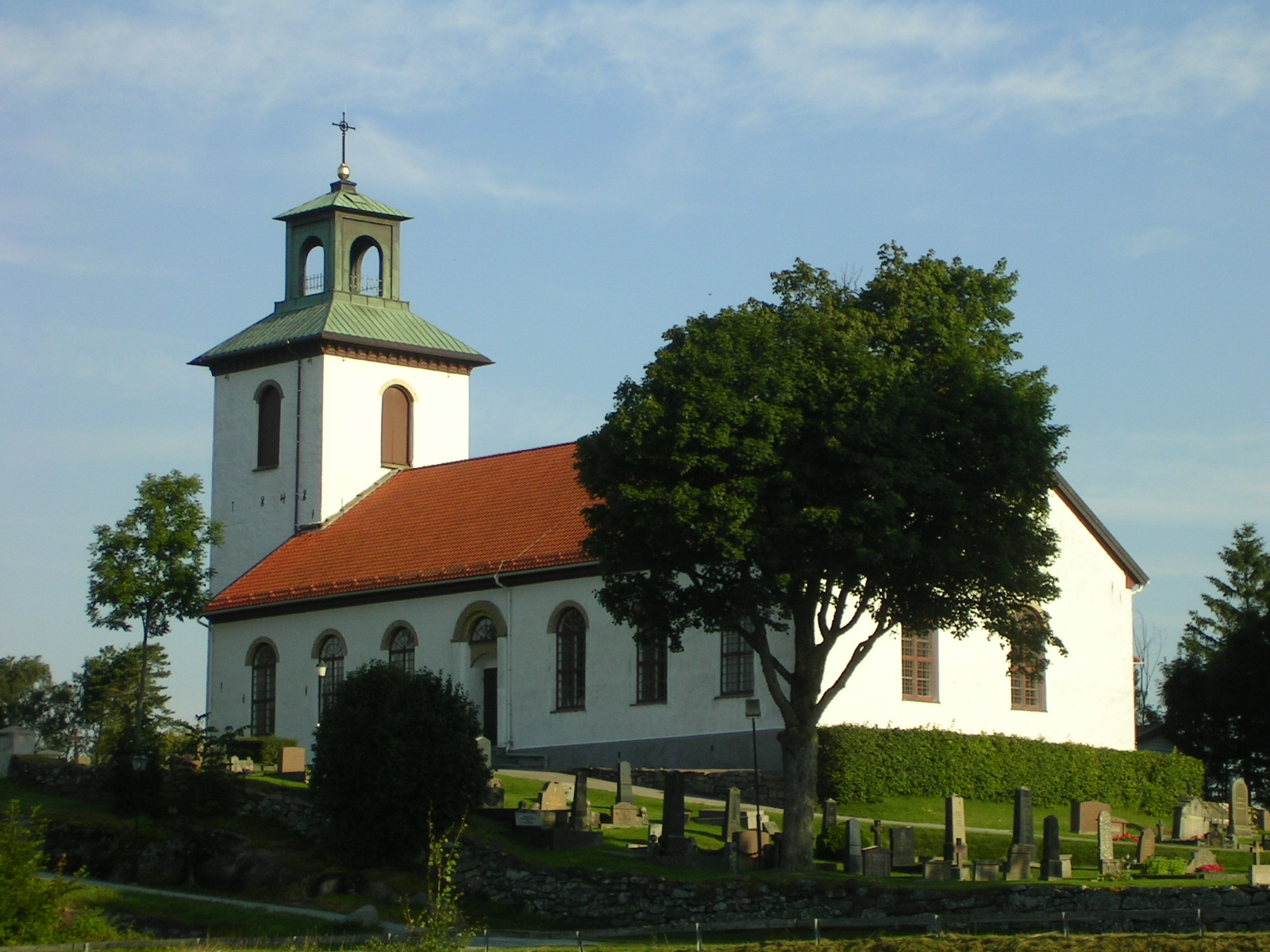 Church of Myckleby, Orust Municipality, Sweden